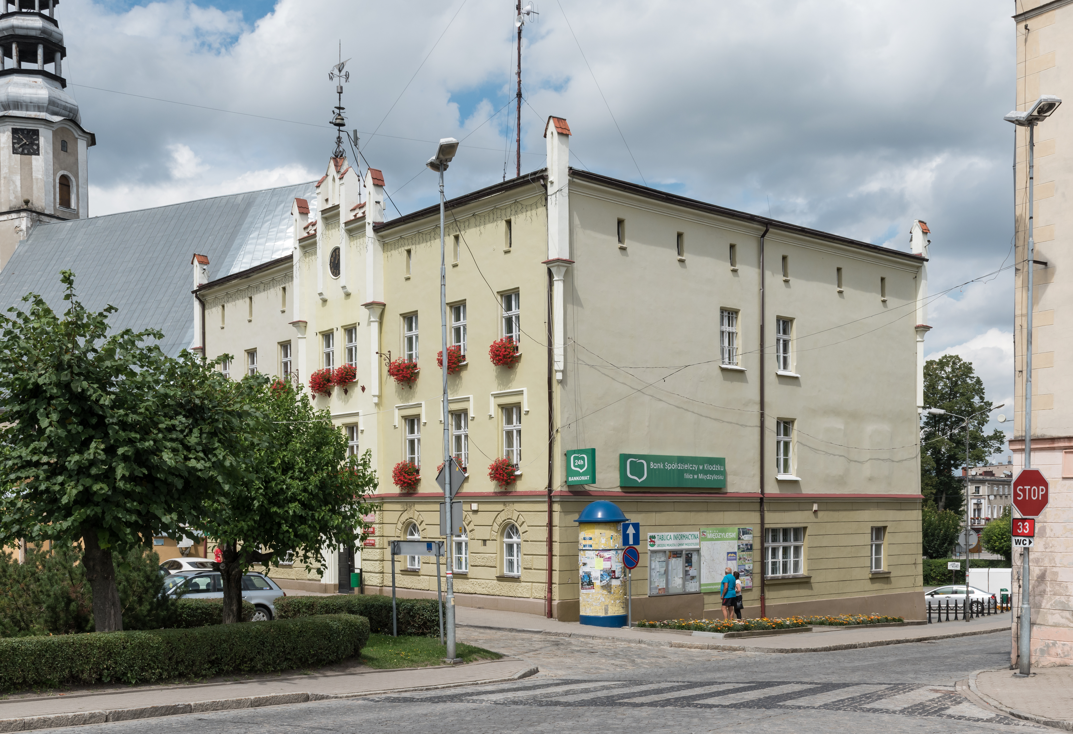 Town hall in Międzylesie